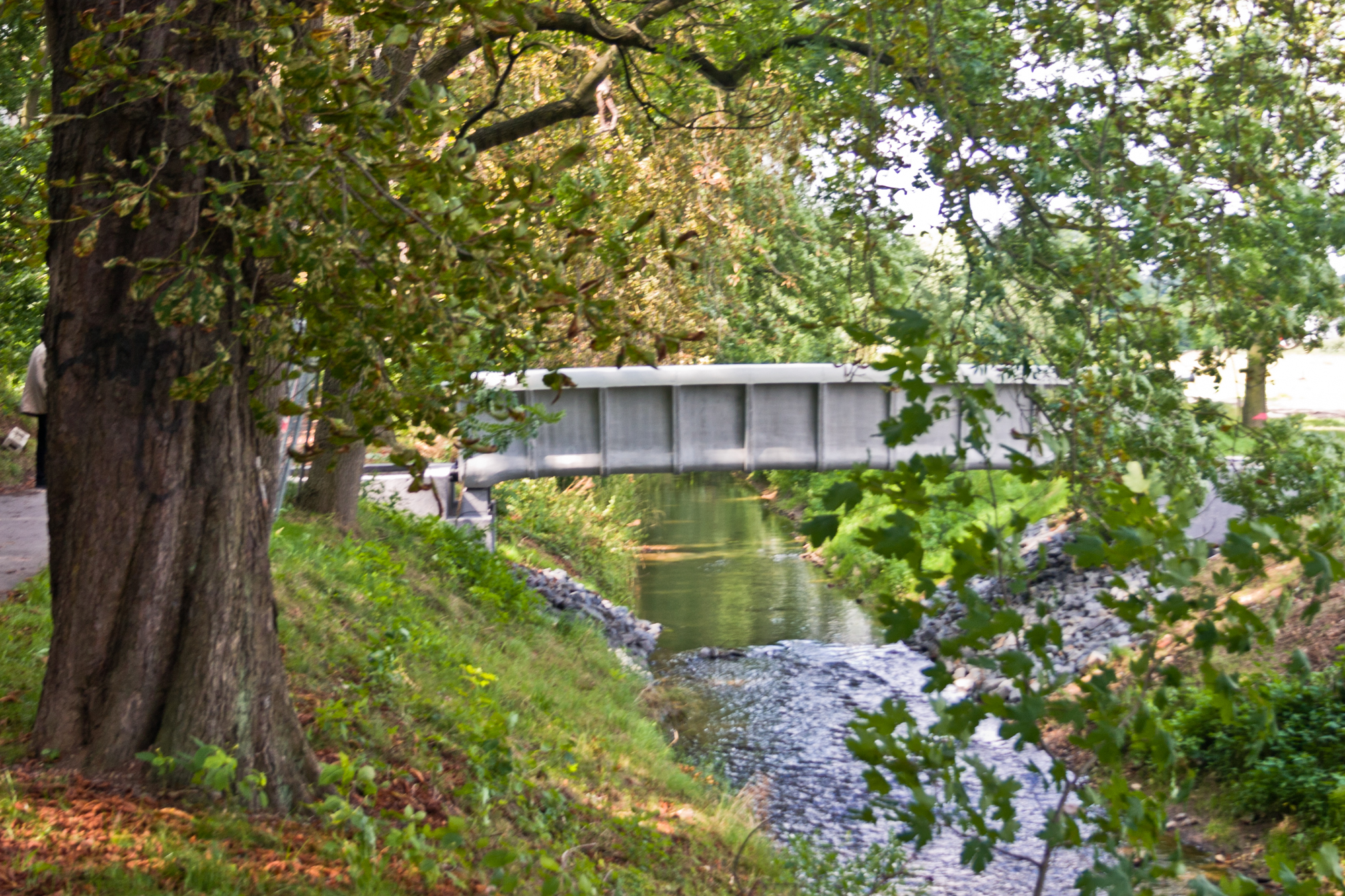 worlds first bridge made from textile reinforced concrete in Oschatz, Germany.